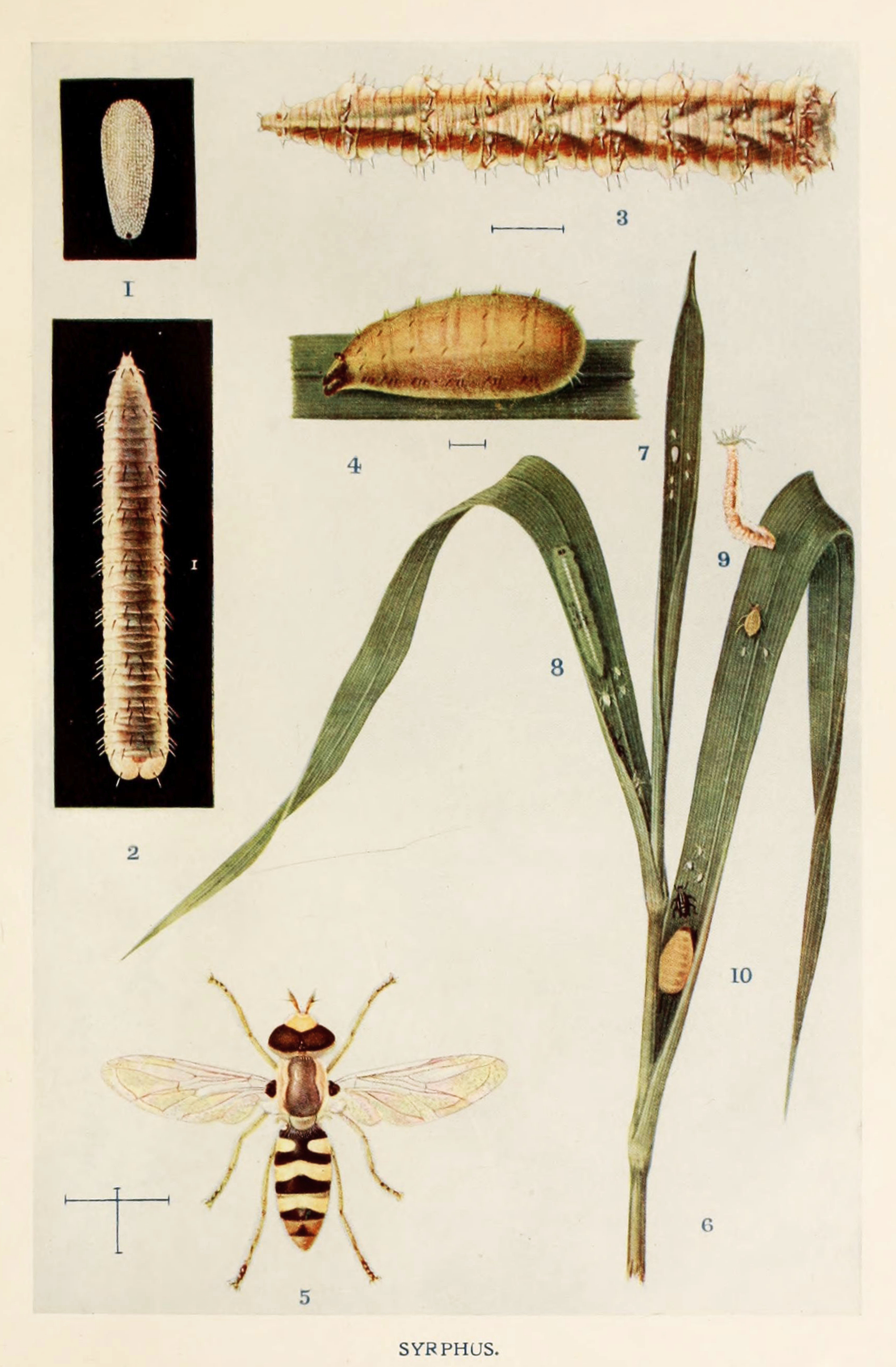 Picture from book Indian Insect Life: a Manual of the Insects of the Plains by Harold Maxwell-Lefroy.